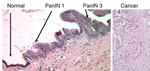 Palladin Expression in Primary Cultures of Pancreatic Ductal Cells Derived from Increasingly Neoplastic Samples. Expression of Palladin RNA increases relative to the degree of precancer to cancer: normal to PanIN 1 (hyperplasia) to PanIN 3 (carcinoma in situ) to cancer. Each bar represents epithelial cell cultures from one person. The PanIN 1 and PanIN 3 lesions (lower left photomicrograph) were purified from two affected members of Family X. The pancreatic cancer epithelial cells (lower right photomicrograph) were purified from a sample of sporadic adenocarcinoma.